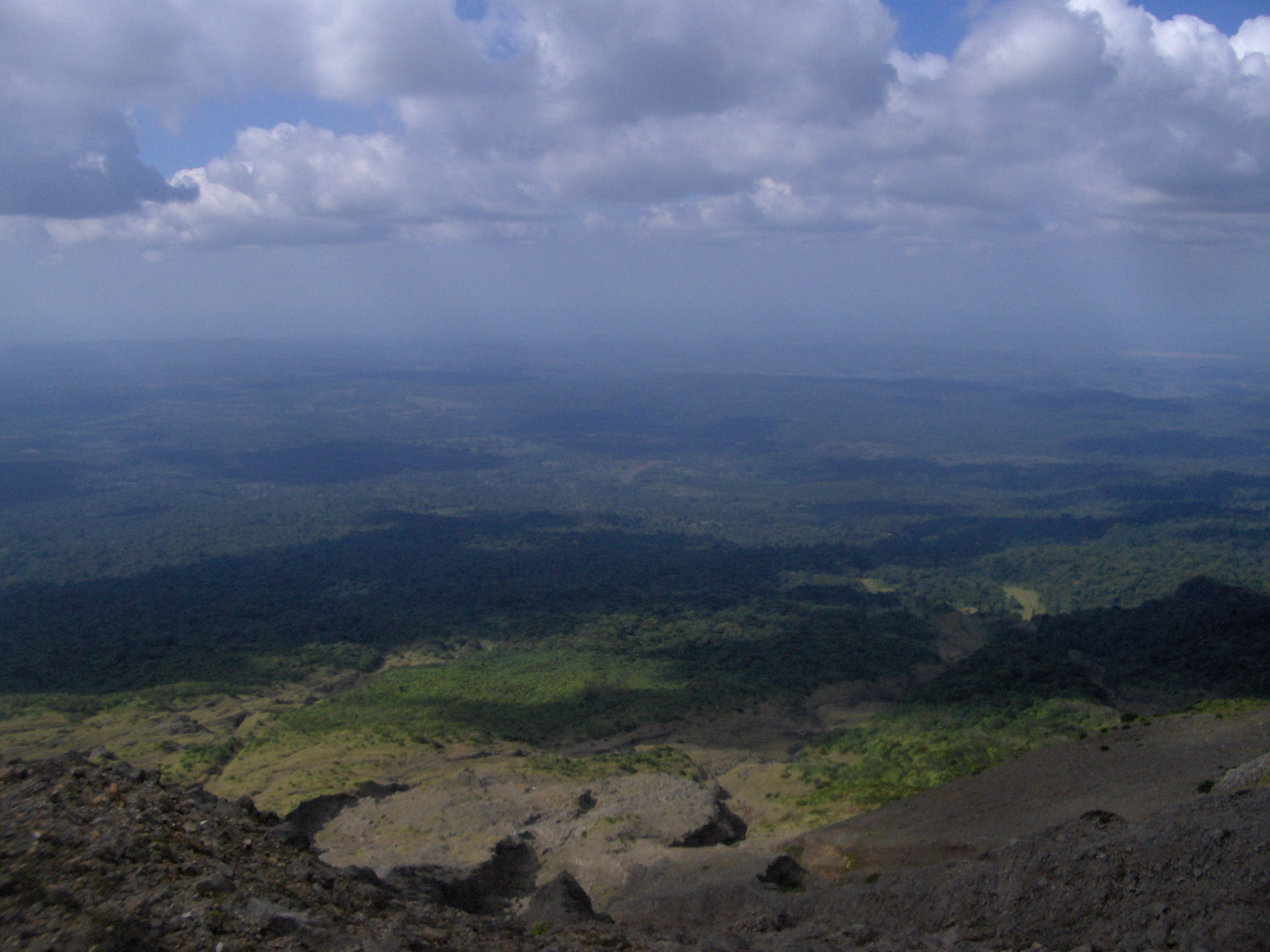 Picture taked from the top of the Rincon de la Vieja volcanoe